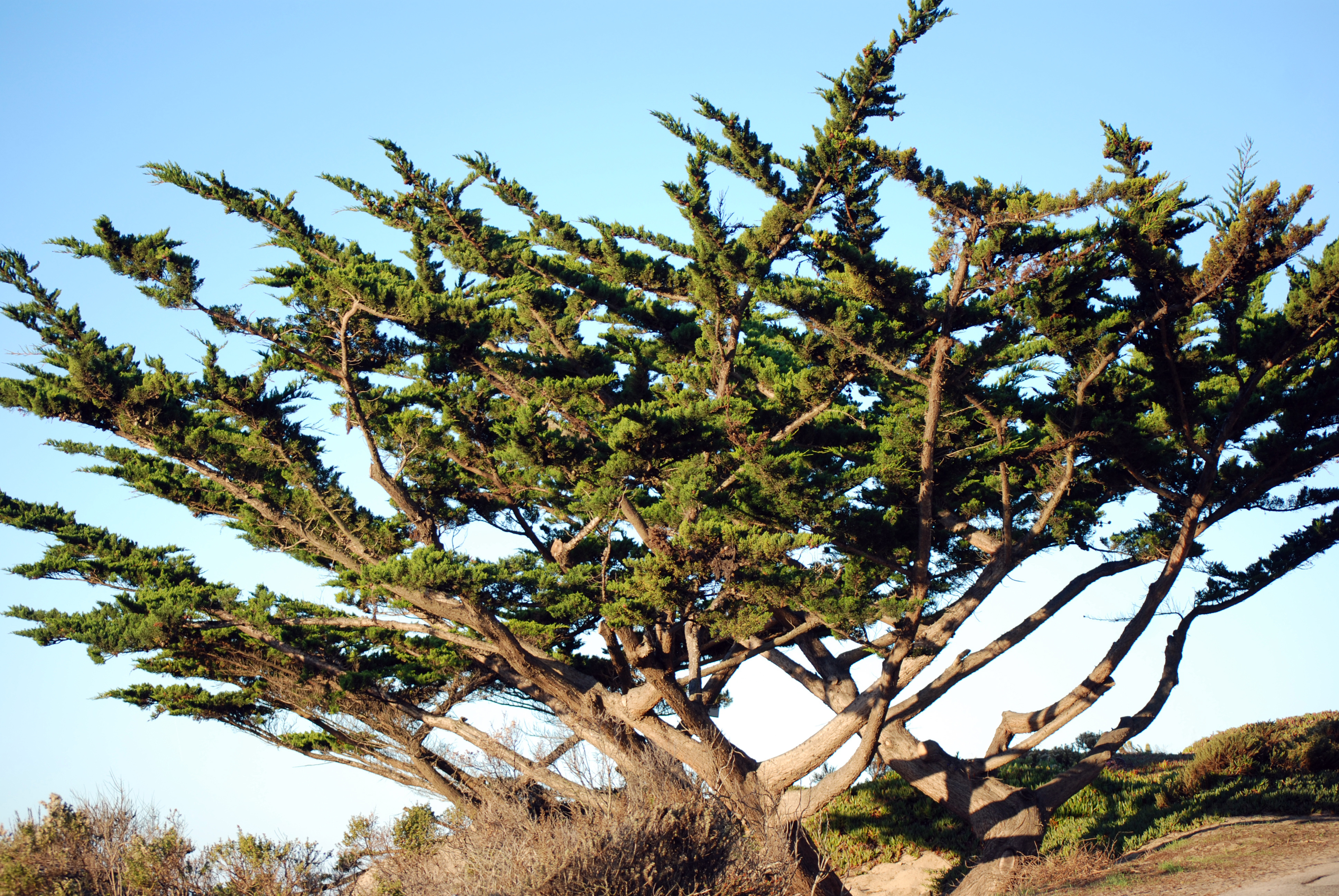 Cupressus macrocarpa, Carmel Bay, near Carmel River State Beach, California.